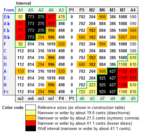 Sizes in cents of the 144 intervals in the C-based 5-limit tuning system (asymmetric scale). The selected ratios are listed below. Bold font indicates just intervals. The values were accurately computed using Microsoft Excel, then rounded to integers. The image was produced using Microsoft Excel and captured with Microsoft Snipping Tool.